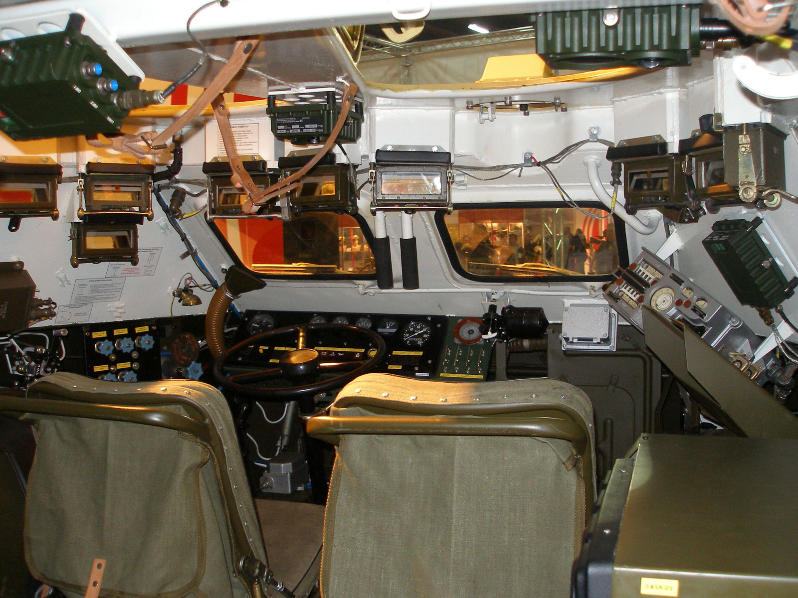 Polish BRDM-2M96iK "Szakal" (indoor view)